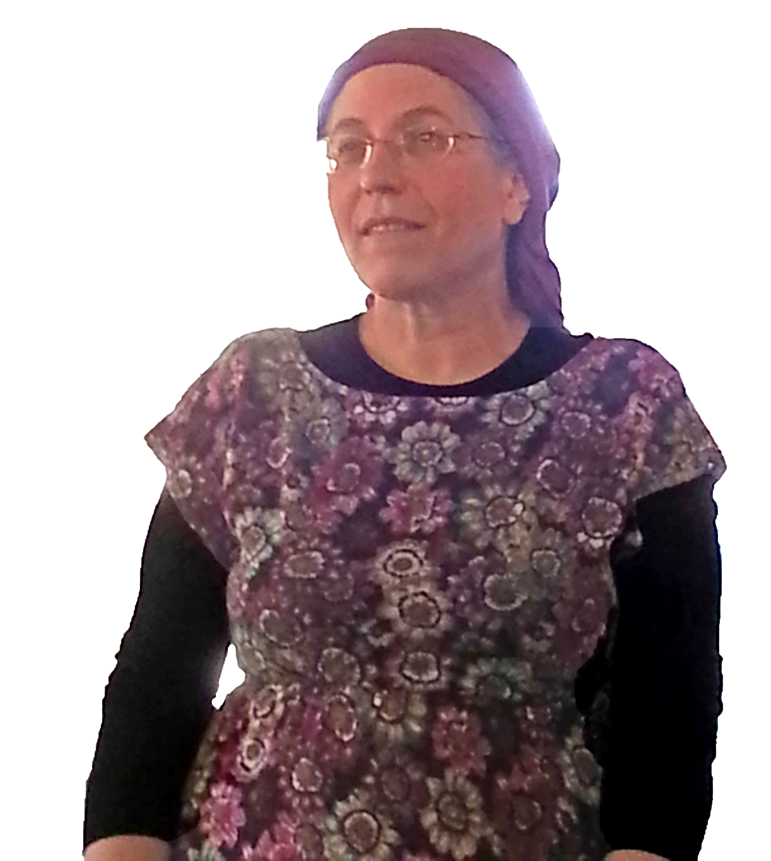 Orit Strouk, Member of the Knesset from The Jewish Home party, Israel